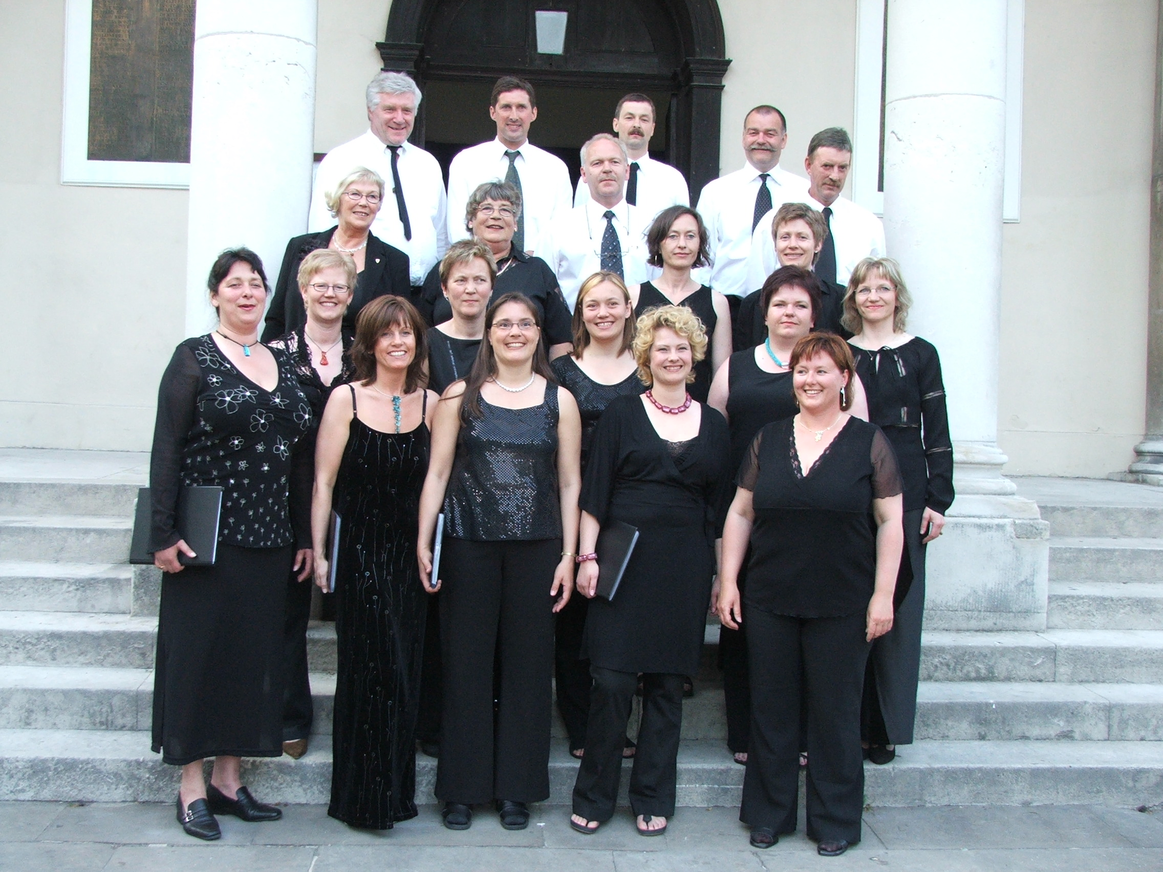 The Norwegian choir Onoy/Luroy sangkor in London, June 2005